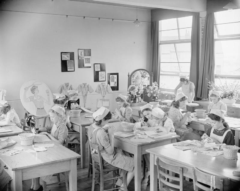 A Modern County School A needlework class underway.